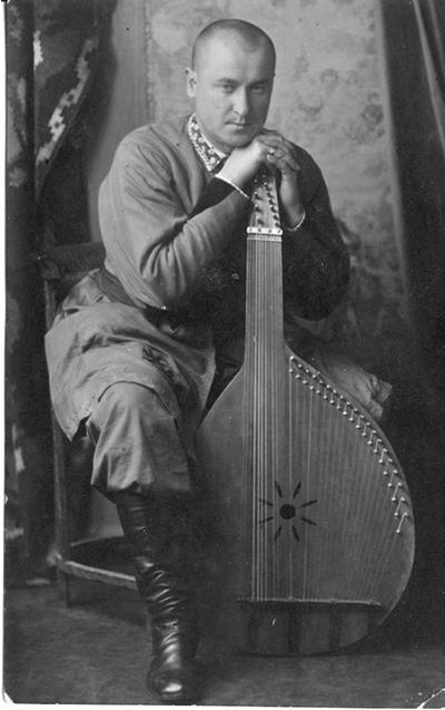 KOBZAR HRYTS' Kharkiv PHOTOGRAPH, 1925 postcard